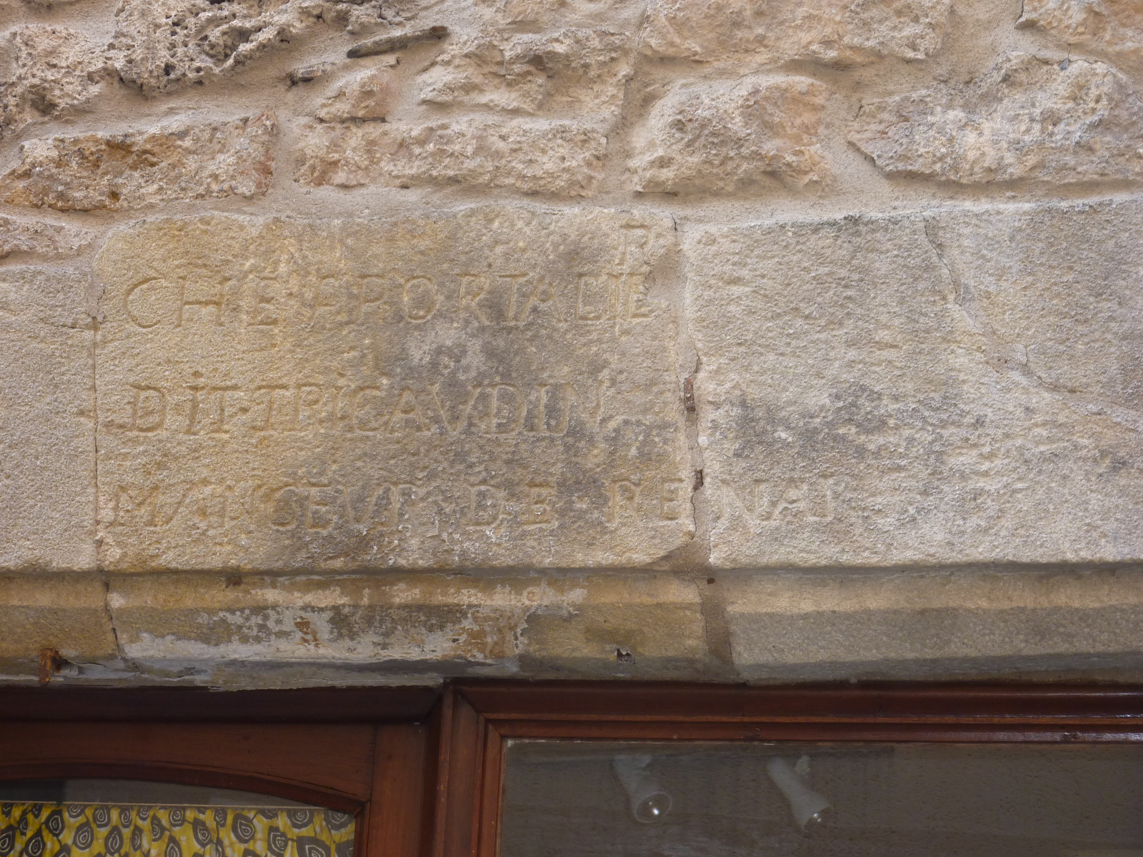 Above the street window, the inscription reads :"Chez Portalier dit Tribaudin, mangeur de renard" ( At Portalier called Tribaudin, a fox hunter", probably the panel of a pub